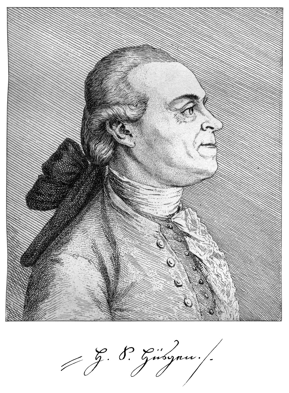 Heinrich Sebastian Hüsgen, steel engraving